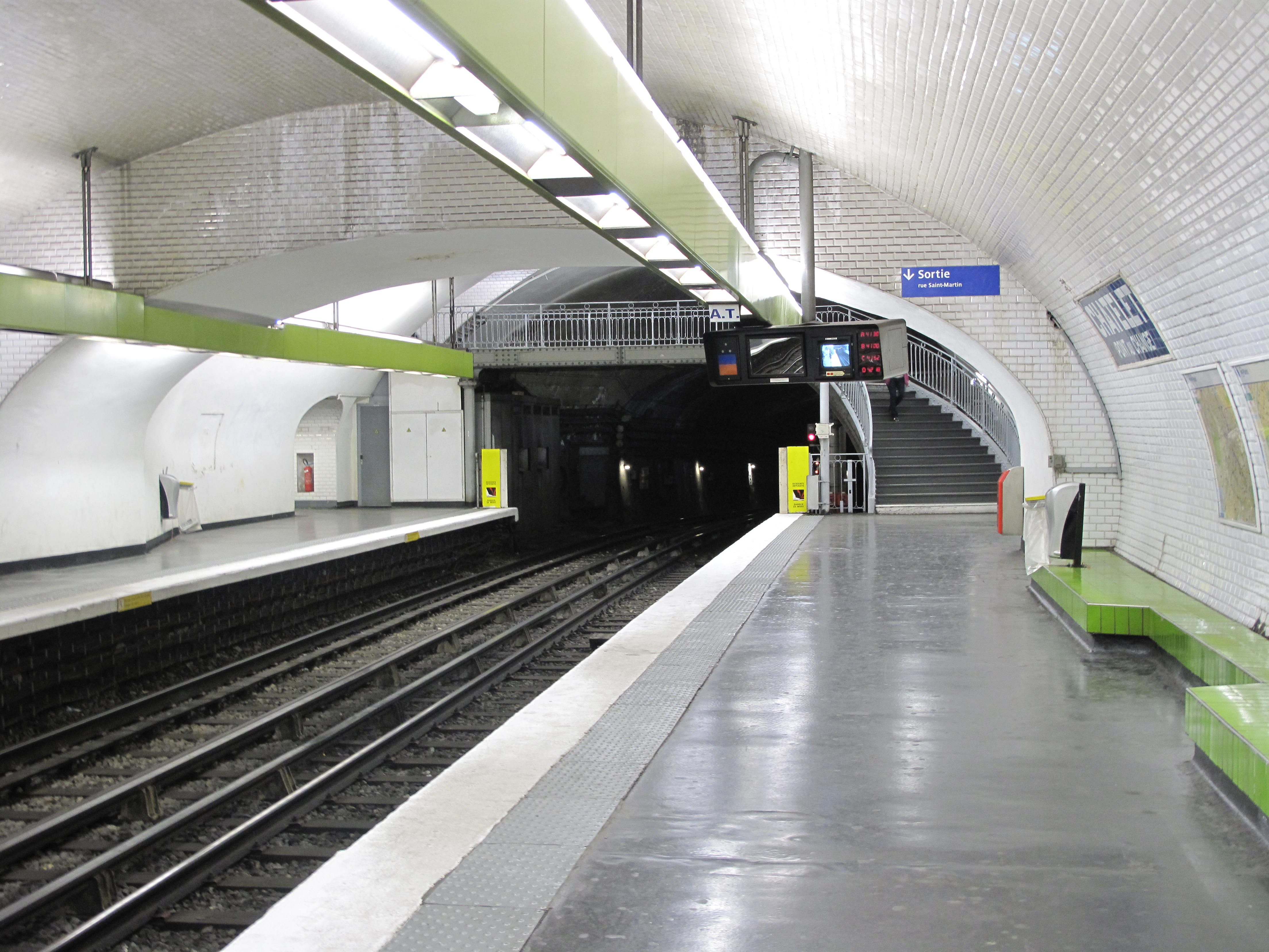 The metro line #7 at the station Chatelet-Pont au change, Paris 4th arr. The station was buit under the quai de Gesvres. It reuses the former pier for unloading boats.